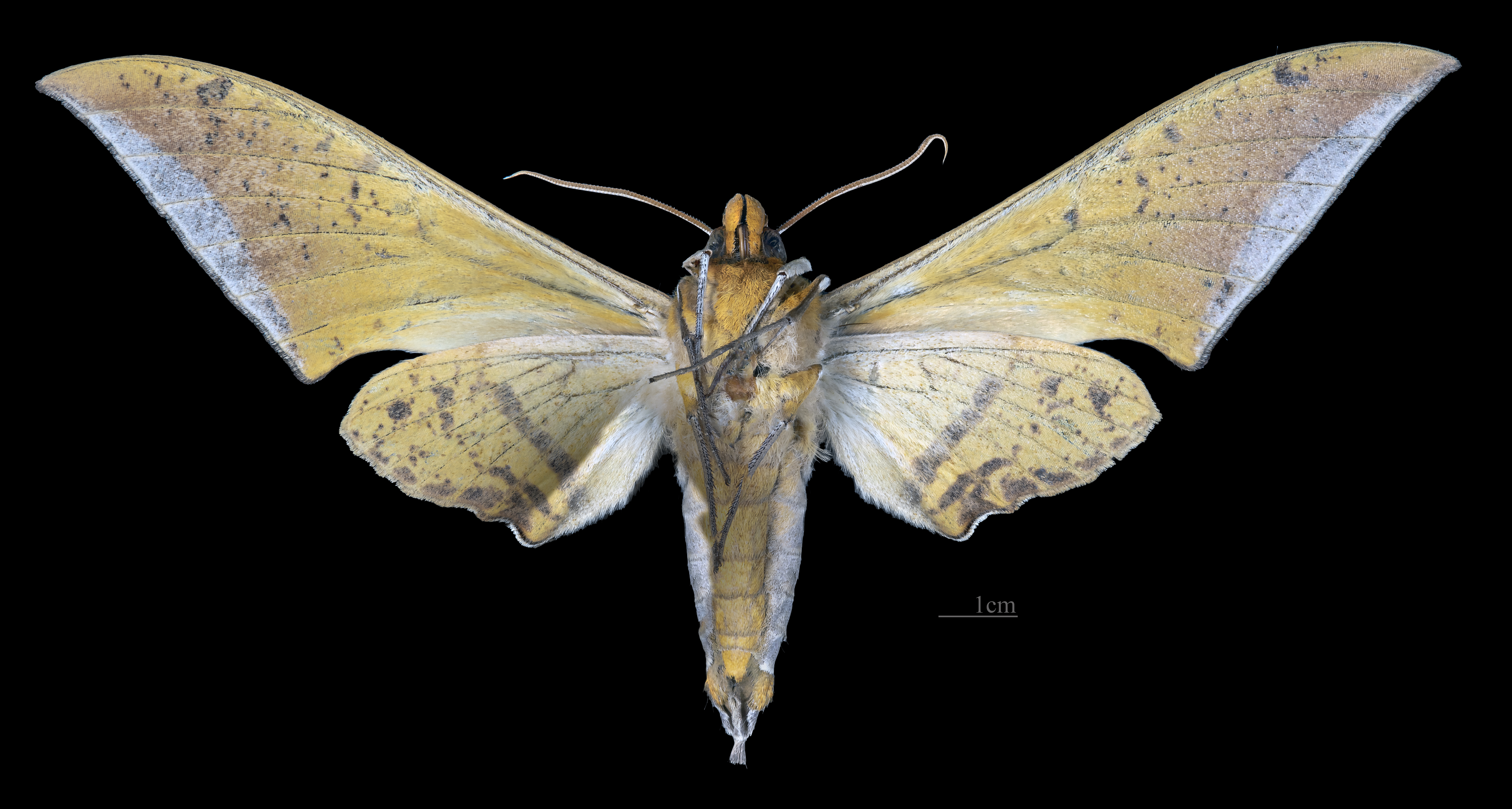 Ambulyx placida - △ Ventral side Collection of the Mathematician Laurent Schwartz